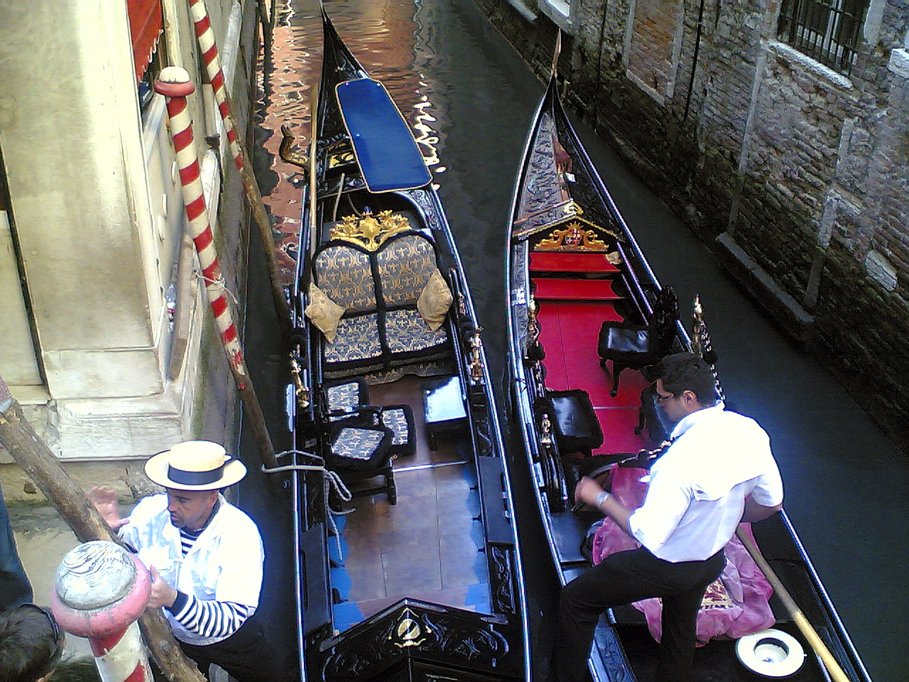 Gondoliers Venice 2007